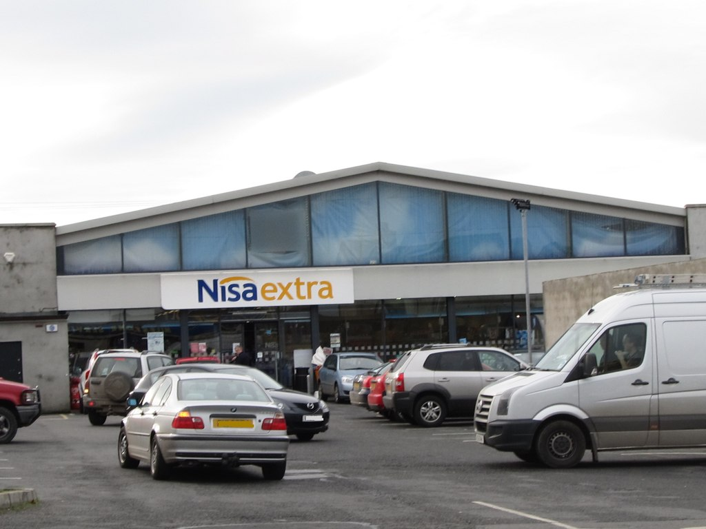 Nisa-extra supermarket in Newry Street, Rathfriland